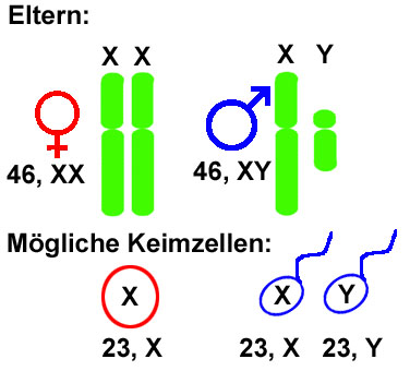 Scheme of human sex chromosomes and resulting germ cells. Translation: Eltern = parents. Mögliche Keimzellen = Possible germ cells.